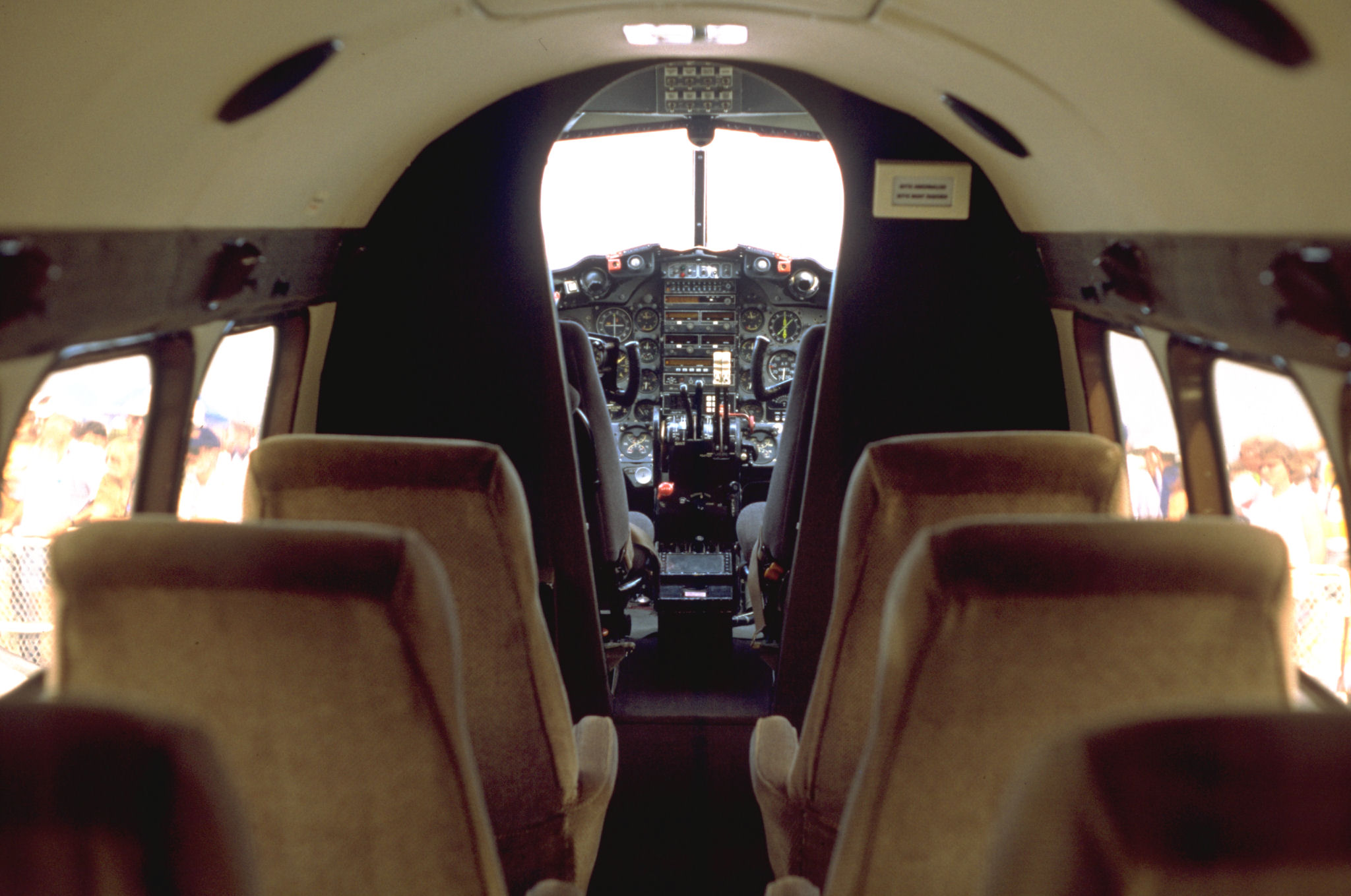 Interior and cockpit of De Havilland Dove D-IFSA at Hahnweide airfield, Kirchheim/Teck, Germany